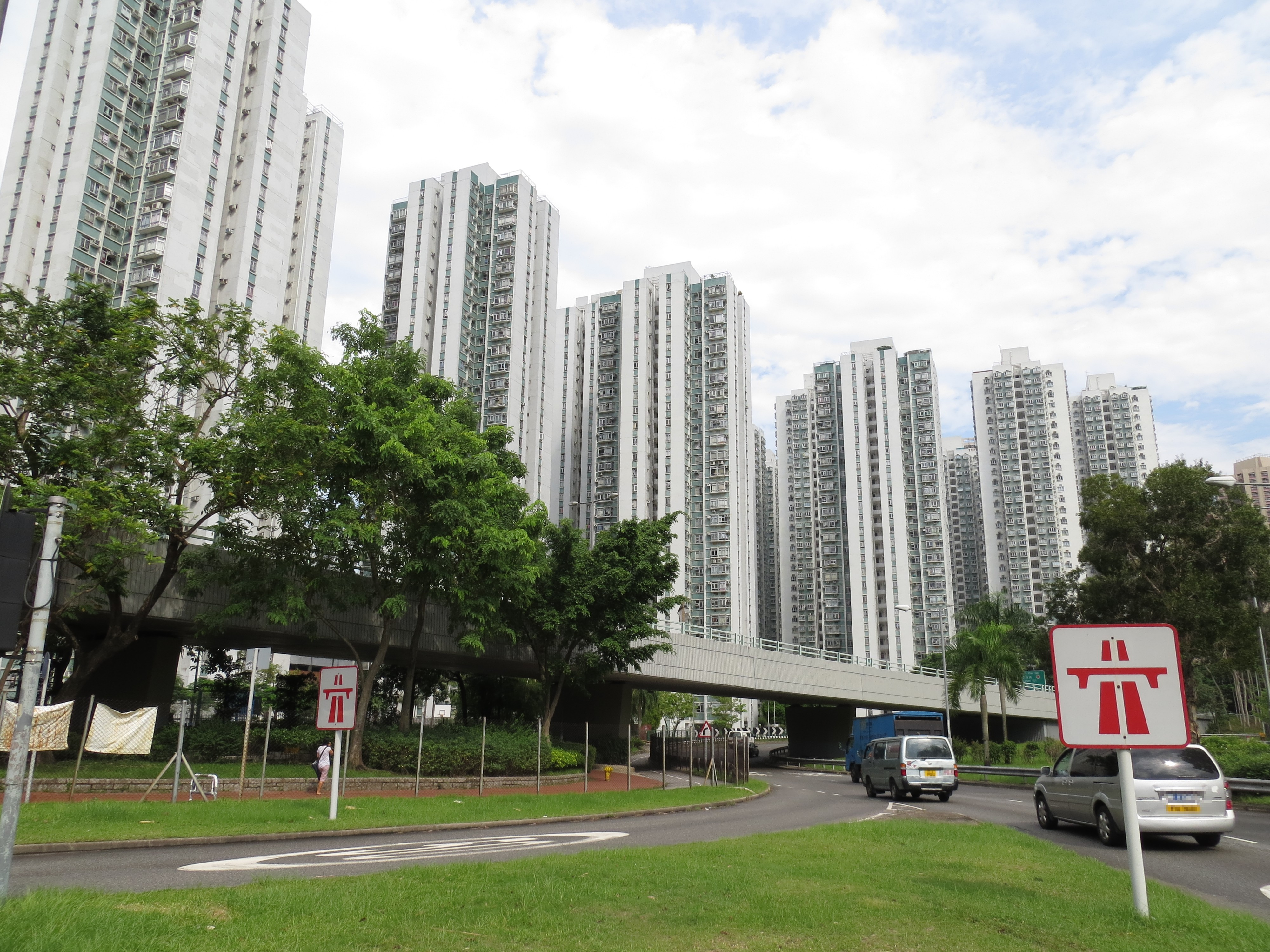 Sha Tin Road near City One, New Territories, Hong Kong.